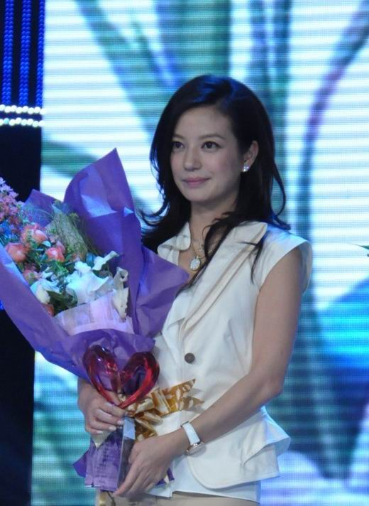 Chinese actress and pop singer Zhao Wei won China Charity Award for her contribution.